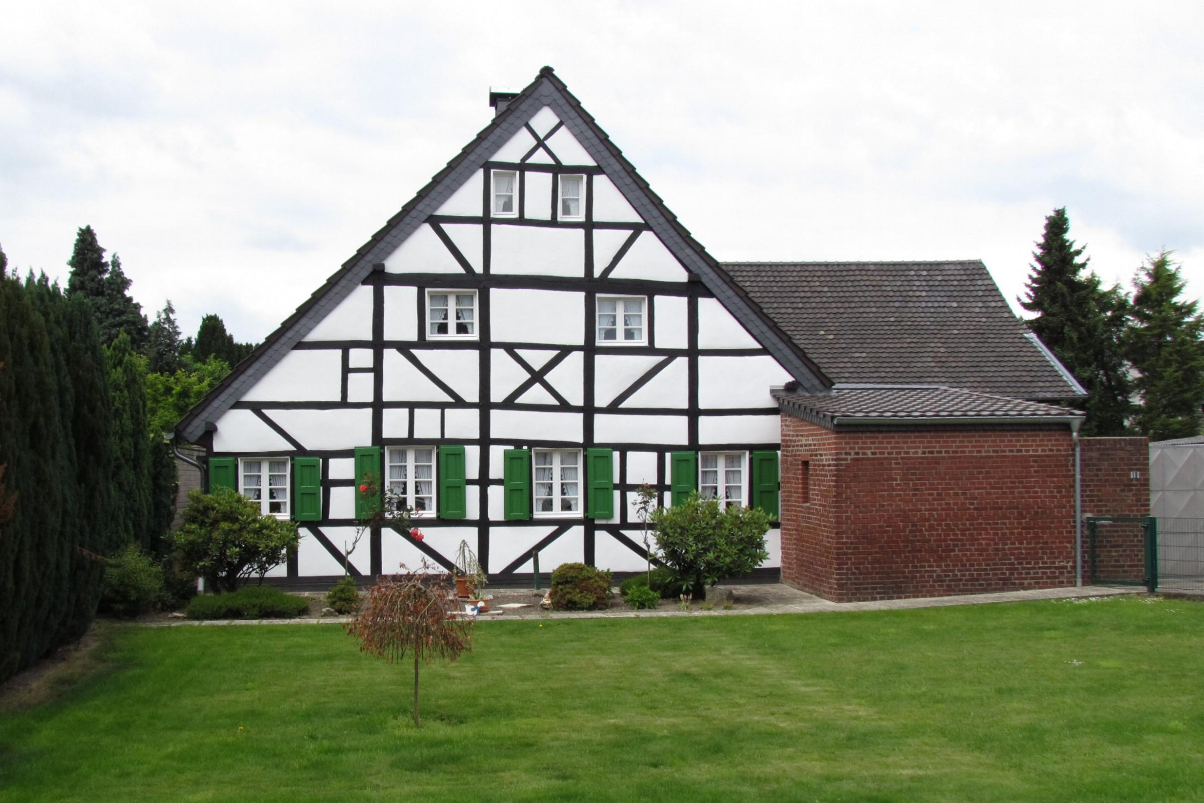 This is a photograph of an architectural monument.It is on the list of cultural monuments of Korschenbroich